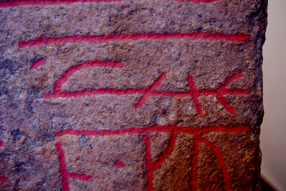 The bind rune found on the runestone from Sønder Kirkeby, Falster, Denmark. Now housed at the National Museum of Denmark. DR 220